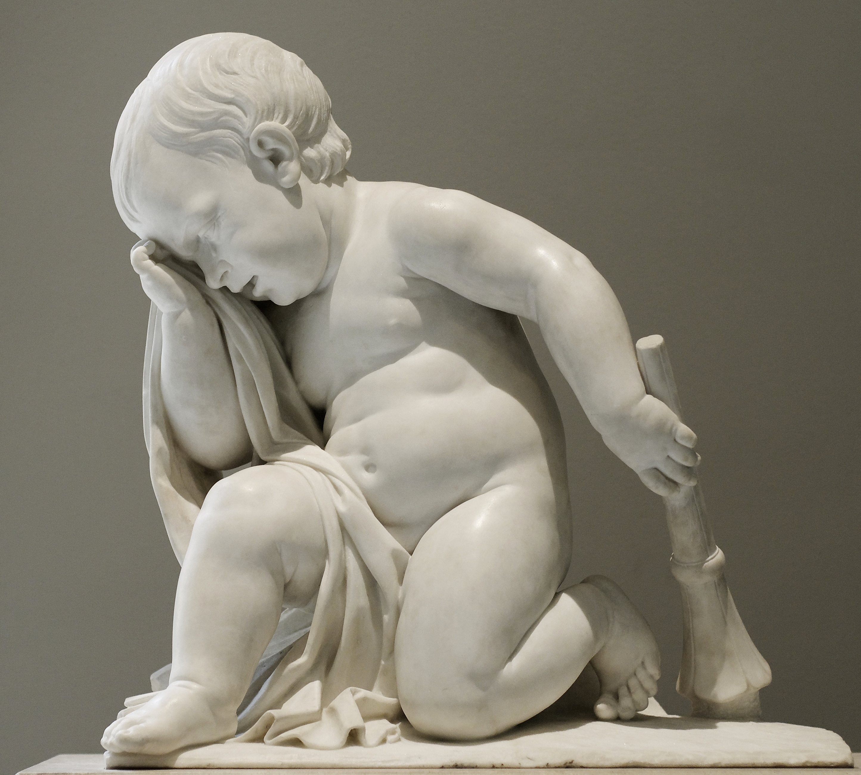 Weeping genius, marble, from the funerary monument of Germain-Anne Loppin de Montmort.